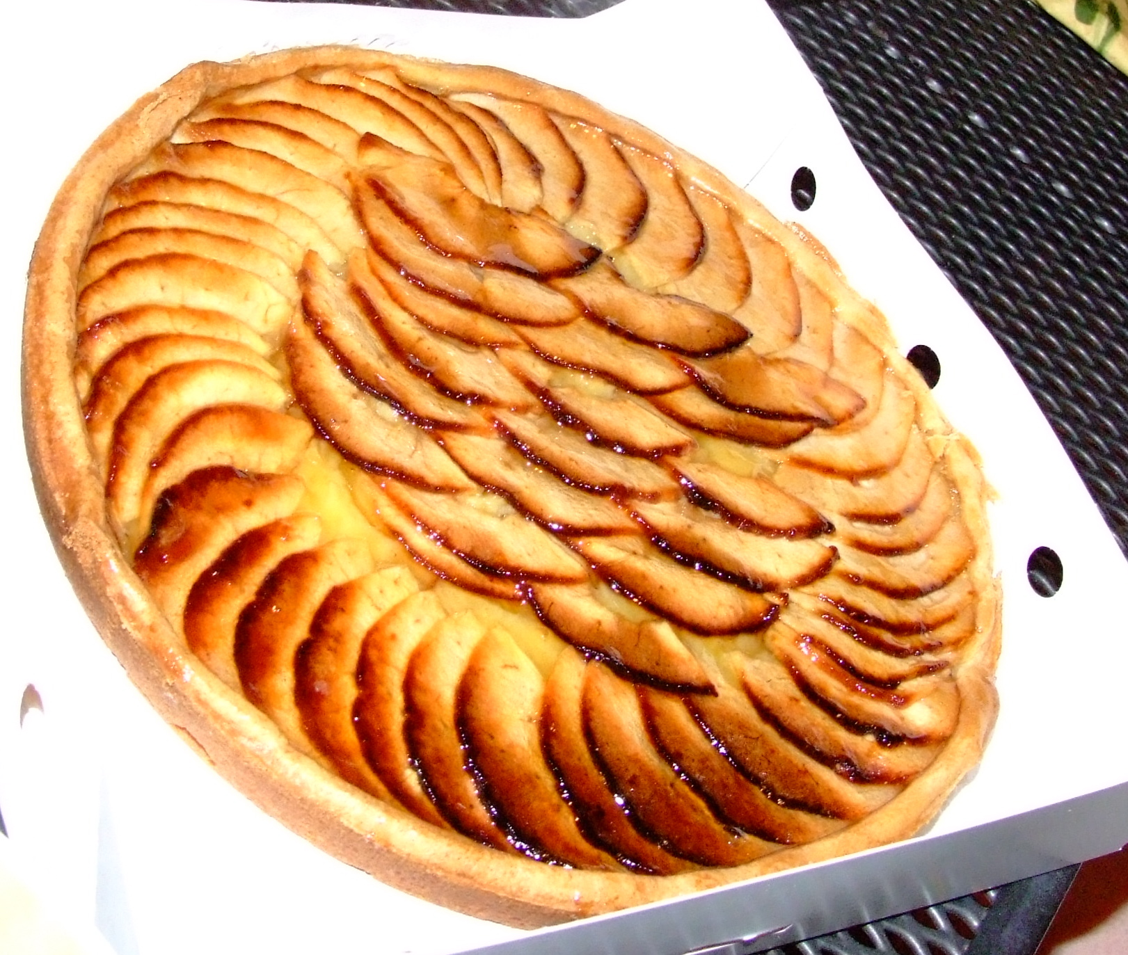 French apple tart